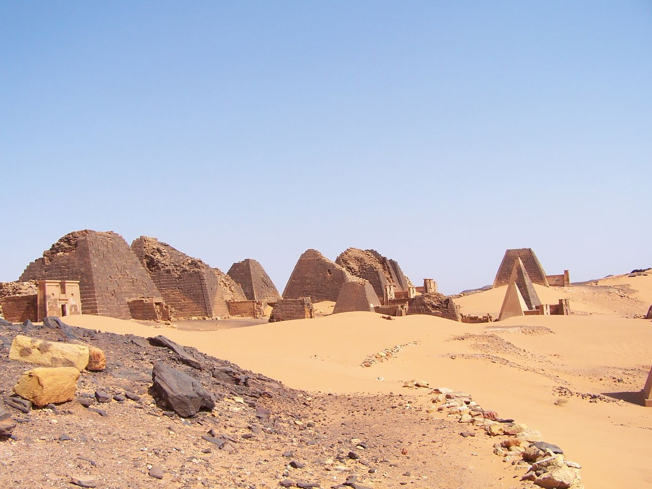 Pyramids of Meroe in Sudan. From left to right: pyramide N6 (only chapel visible), N7, N8, N9, N11, N12 and N13.